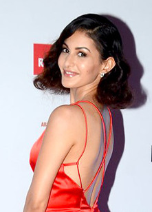 Dastur gracing ‘Filmfare Glamour & Style Awards 2016’